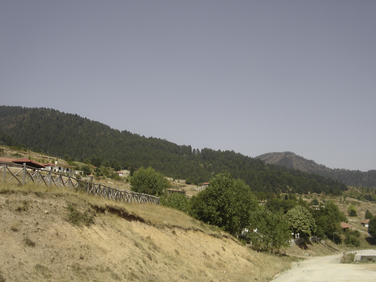 A view from Fteri, one of the most remote areas in Pieria, on the border with Kozani.